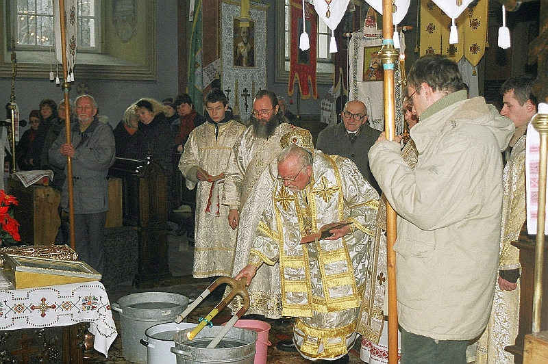 Holy water in Eastern Christianity, Sanok